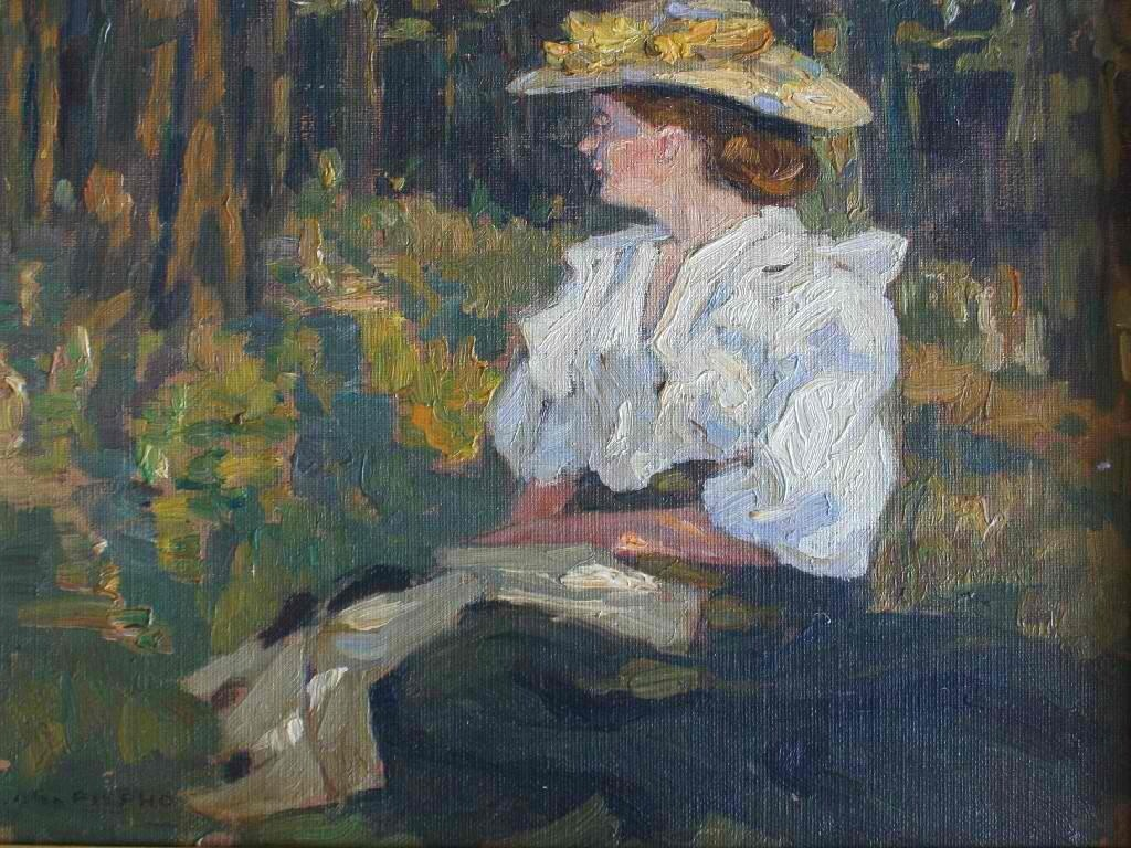 PORTRAIT-OF-A-LADY--IN-DAPPLED-LIGHT